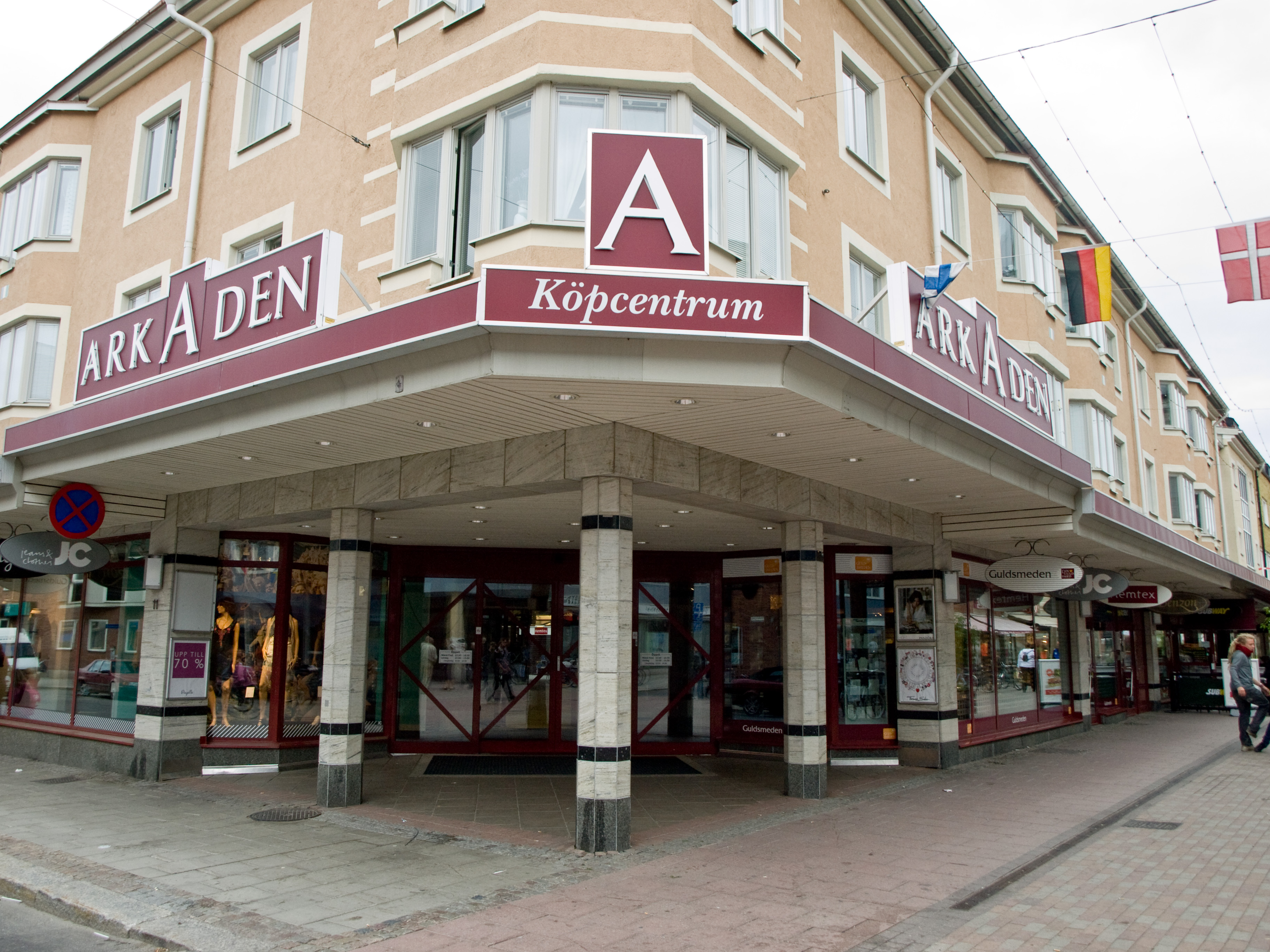 The entrance of Arkaden in Skellefteå, Sweden.